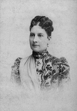 Infanta Antónia of Portugal, mother of Ferdinand of Romania